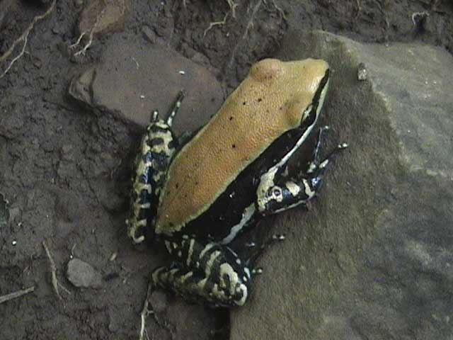 Fungoid Frog seen at CEC (Conservation Education Centre?), Goregaon, Mumbai. Rana malabarica